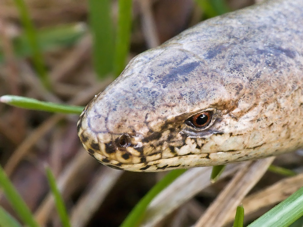 Anguis fragilis